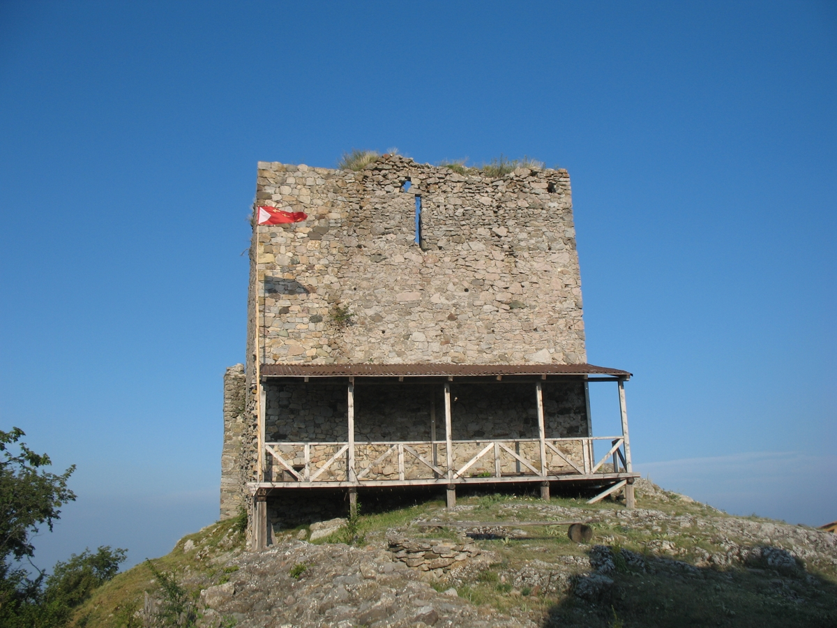 Donjon tower in Koznik fortress above Rasina river on Kopaonik slopes,near Brus, Serbia.